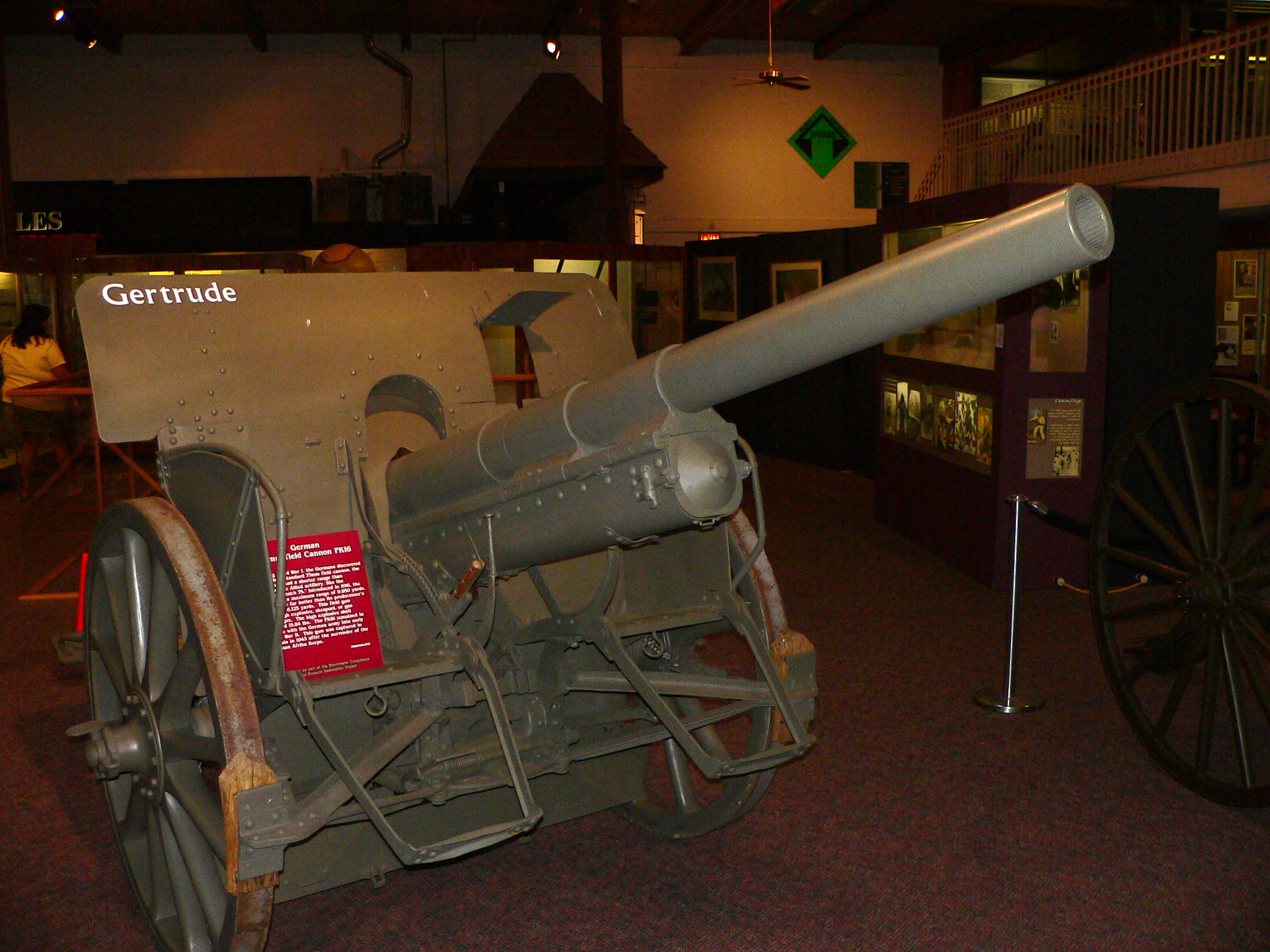 Picture taken by myself, Mark Pellegrini, at the United States Army Ordnance Museum (Aberdeen Proving Ground, MD) on August 14, 2007.